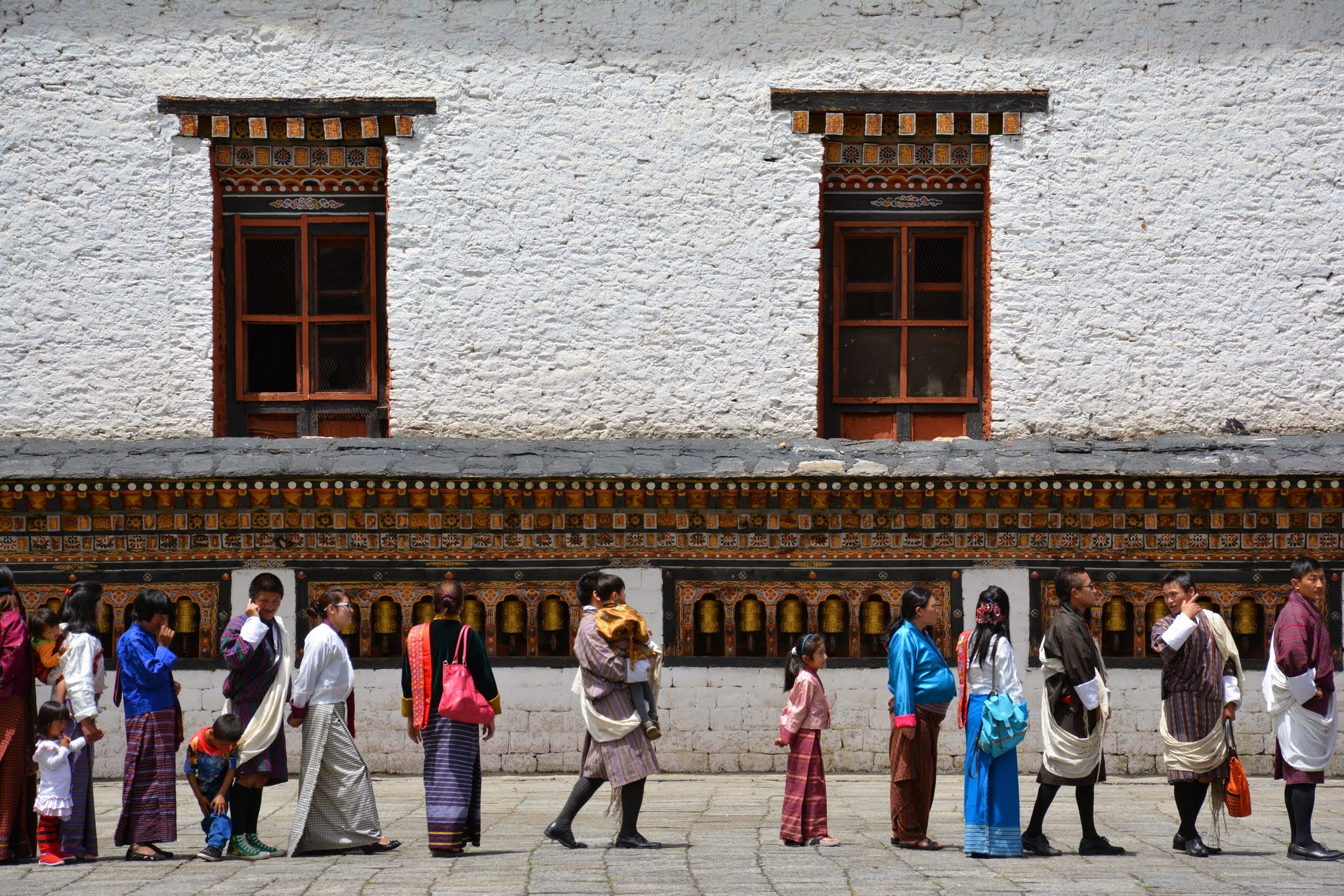 National clothes (in Thimphu)